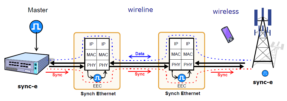 Synchronous Ethernet Network for Wireless baukhaul